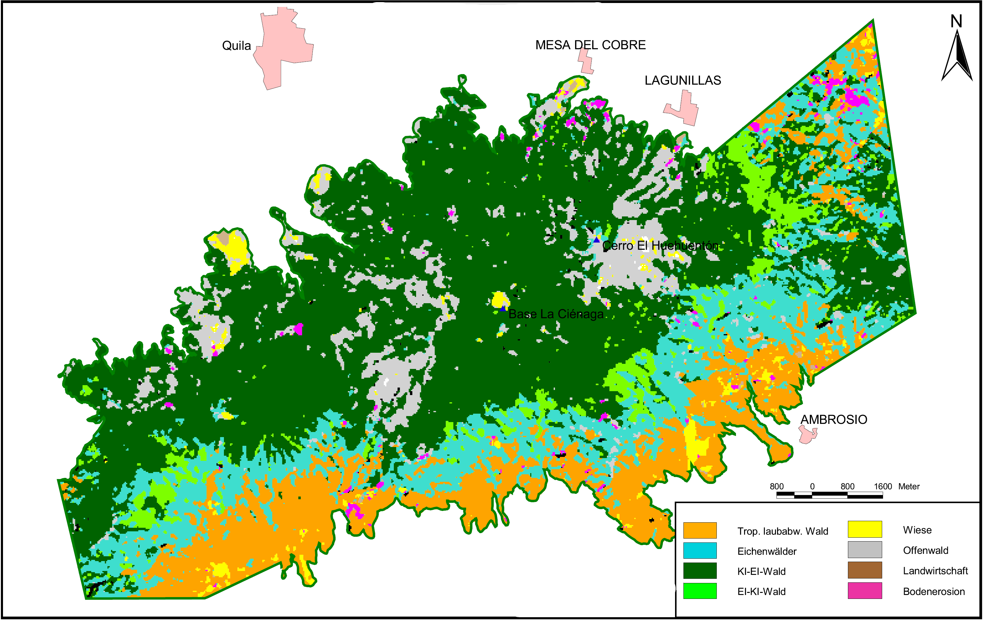 vegetation map Sierra de Quila, Jalisco, Mexico